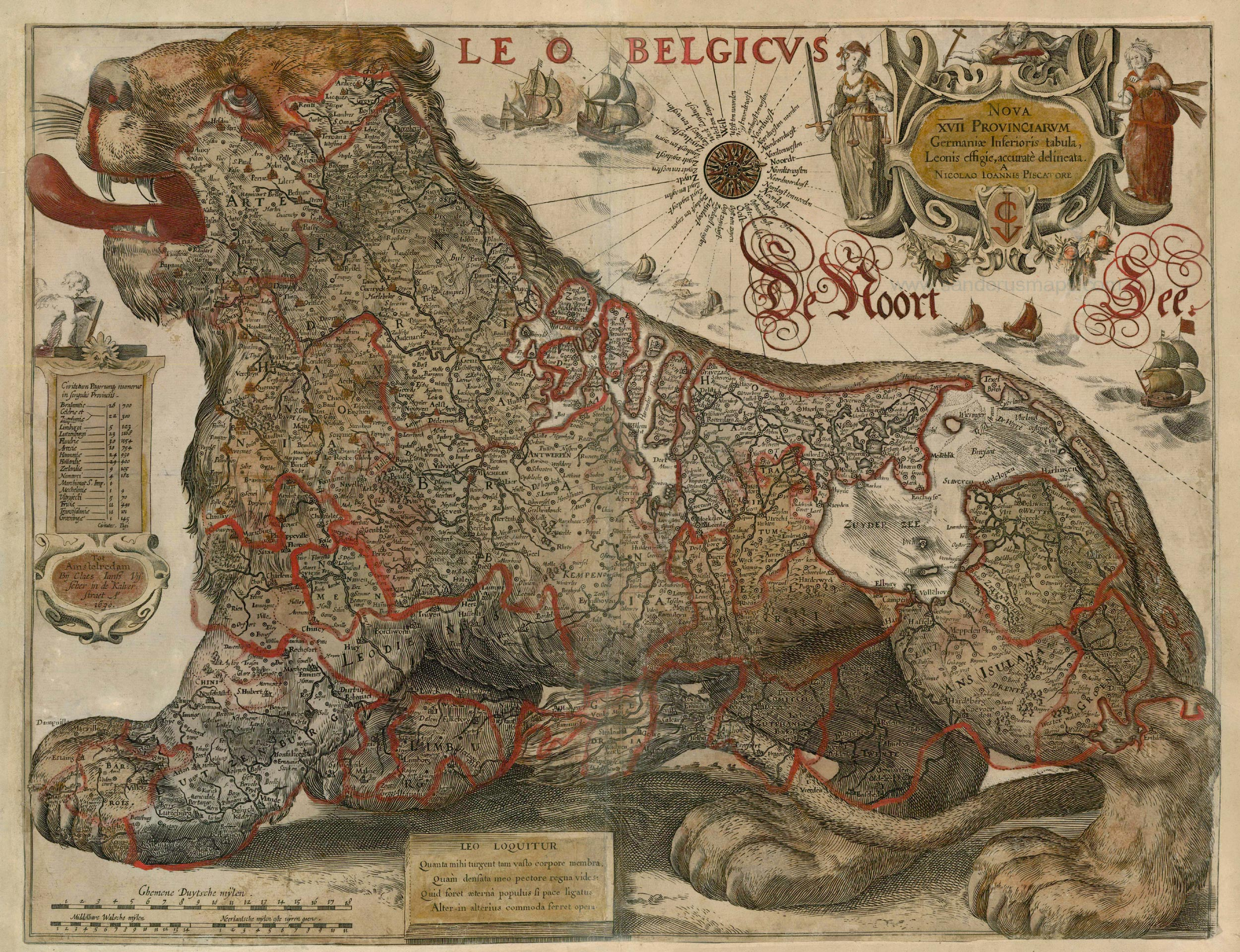 Antique_map_of_Leo_Belgicus_by_Visscher_C.J._-_Gerritsz_1630.jpg